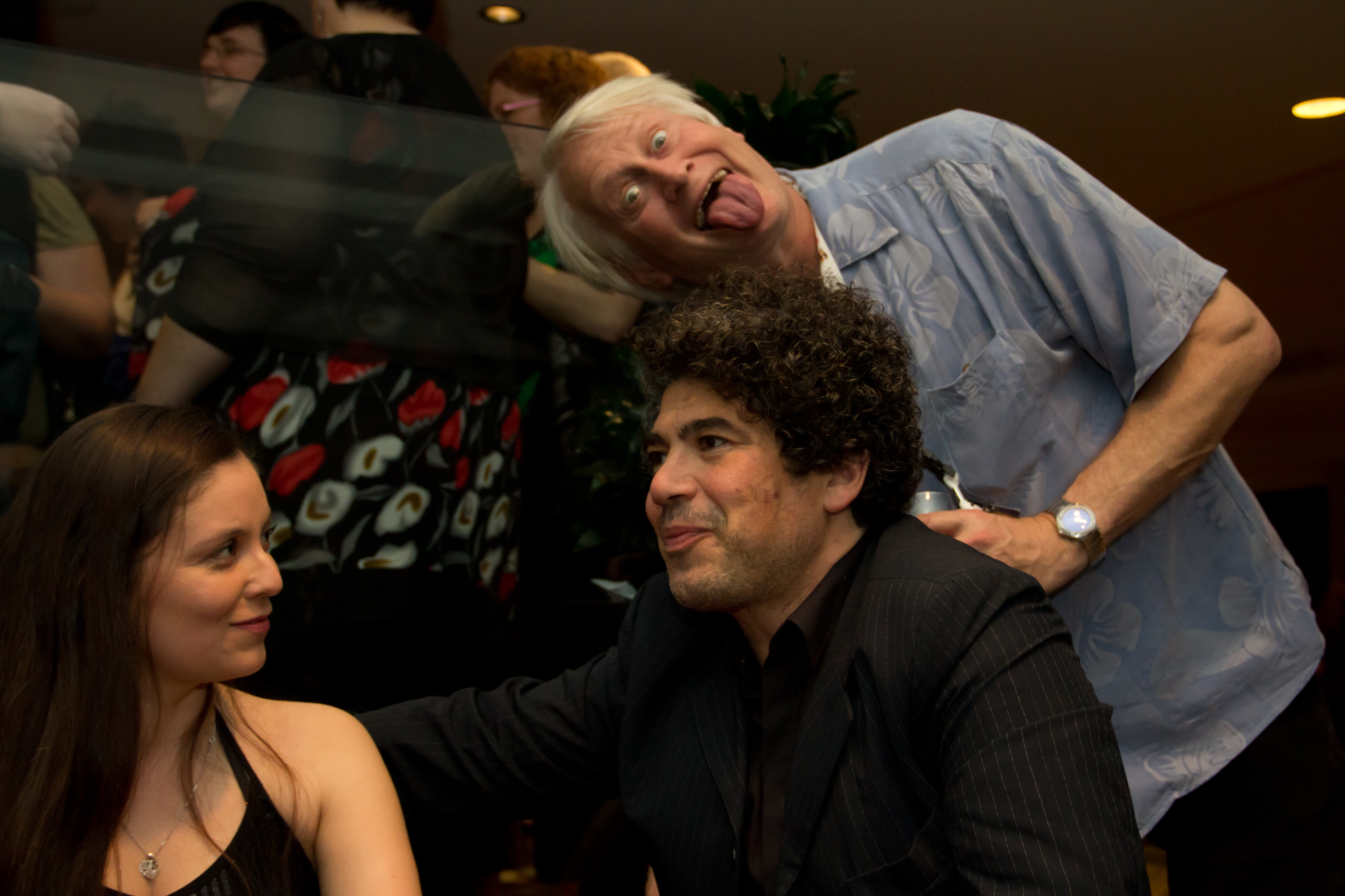 Charles Martinet Voice of Mario and Friends - left (photo bomb) Miltos Yerolemou - Game of Thrones - front right